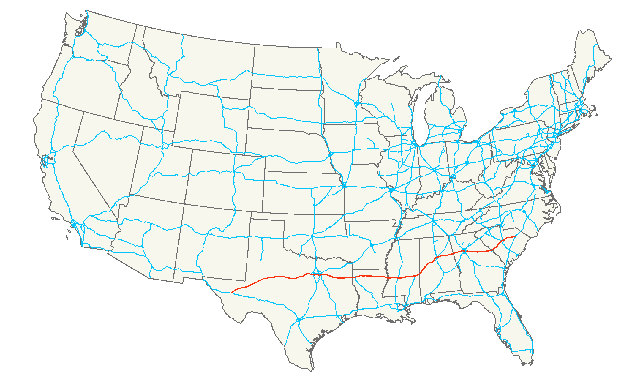 Map of Interstate 20